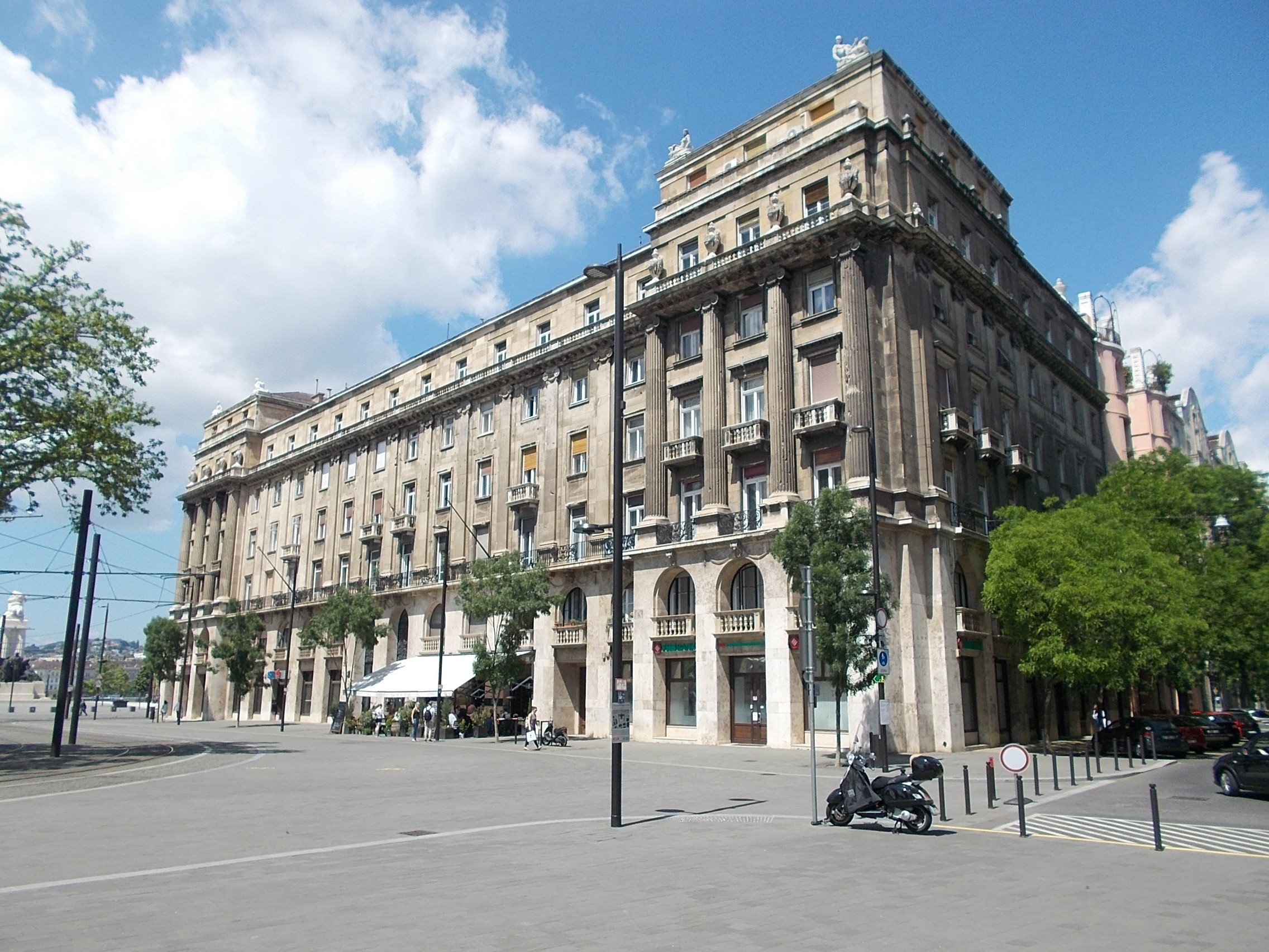 Neo-Baroque façade apartment building. Built in 1919 planned by Béla Málnai. - 13–15. Kossuth Square, Lipótváros neighbourhood, Belváros-Lipótváros district, Budapest.